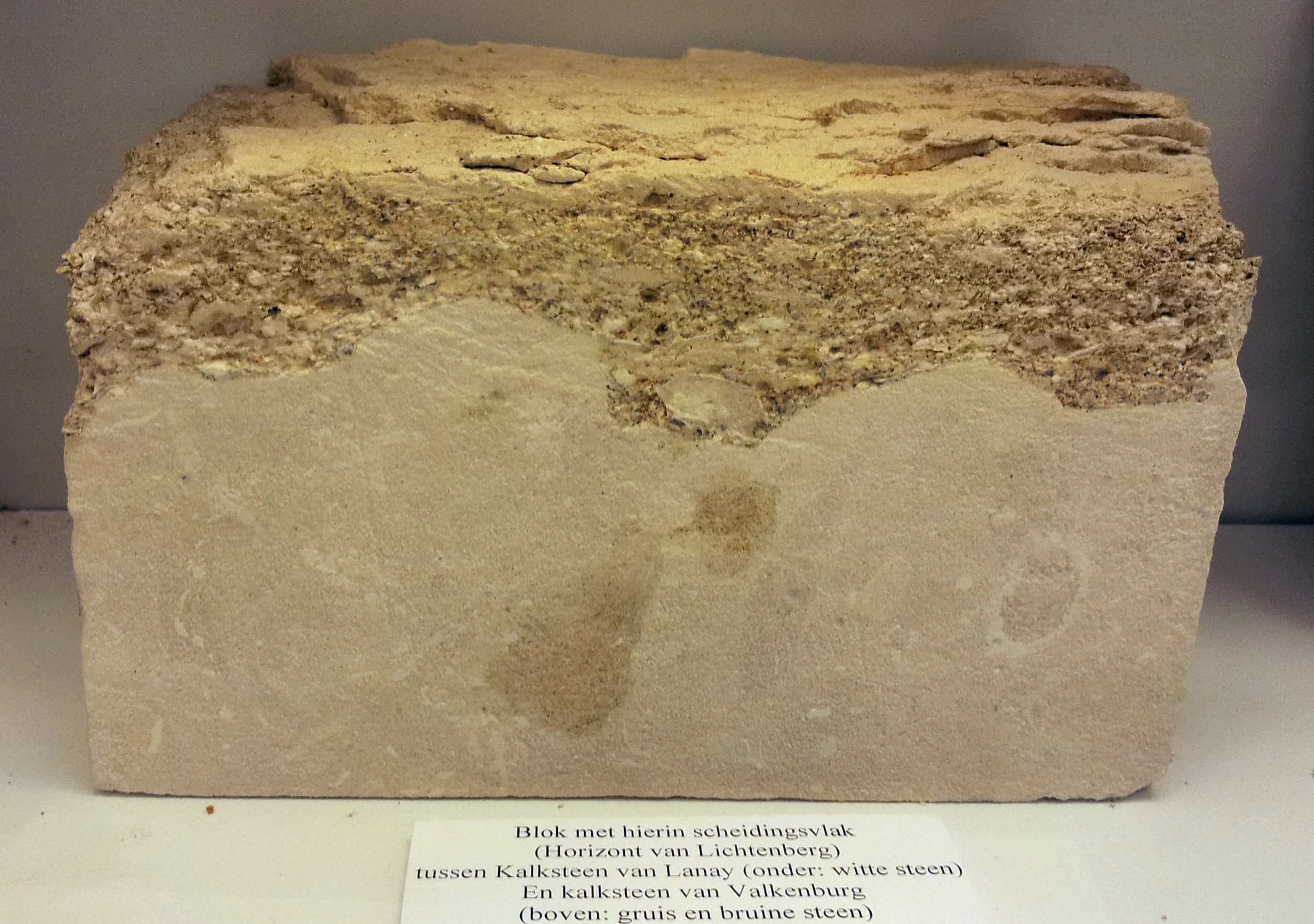 Block of Valkenburg limestone (top) and Lanaye limestone (bottom) from Maastricht, geological collection of Museum Het Land van Valkenburg, Limburg.